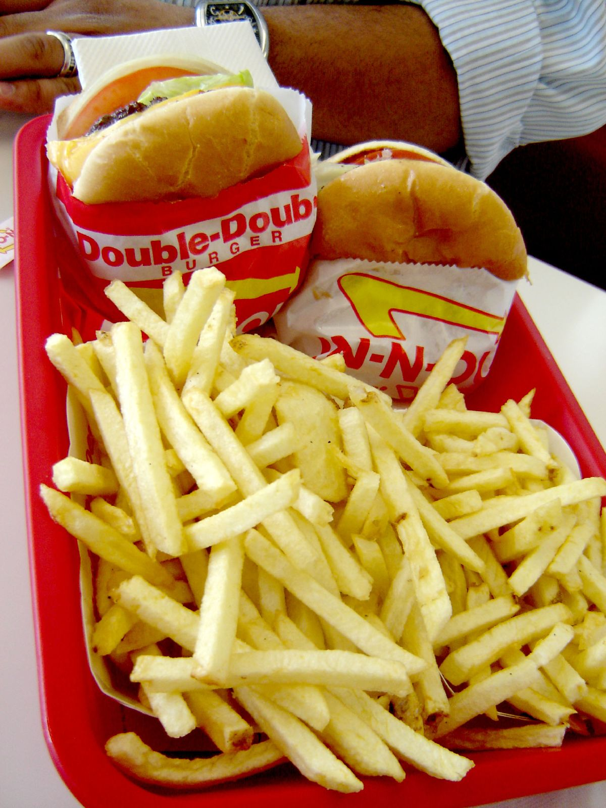 In-N-Out Treats (Las Vegas, Nevada)